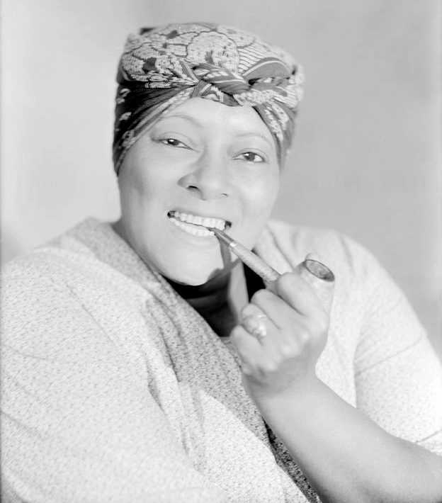 Photograph of Georgette Harvey as Maria in the original Broadway production of Porgy (1927)